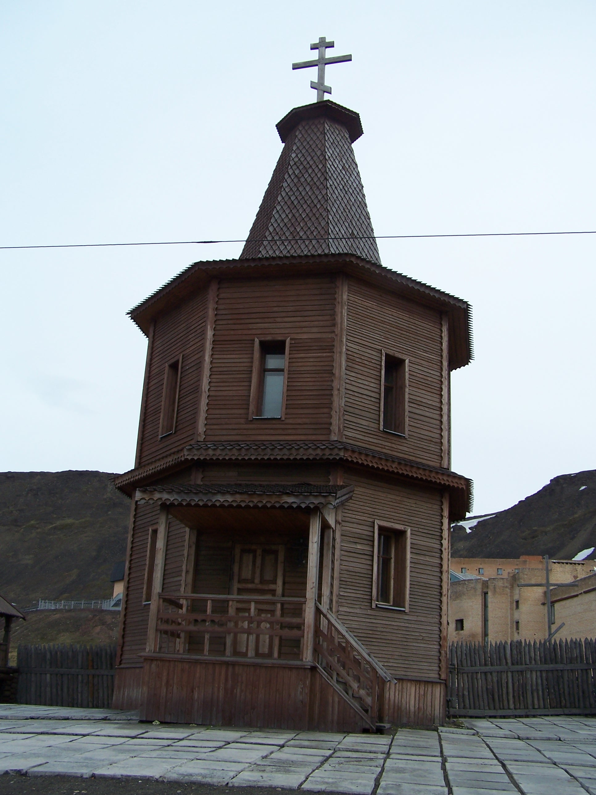 Barentsburg chapel, Svalbard, Norway.